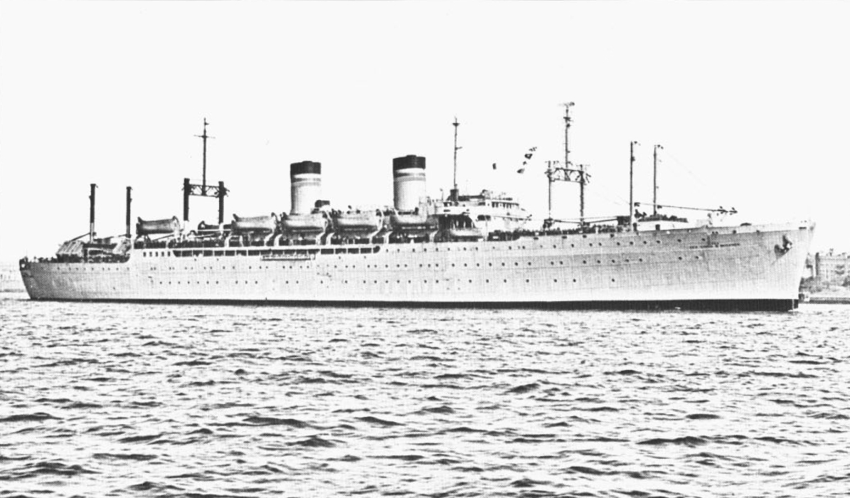 The U.S. Military Sea Transportation Service troop transport USNS General Simon B. Buckner (T-AP-123), circa in the 1950s.